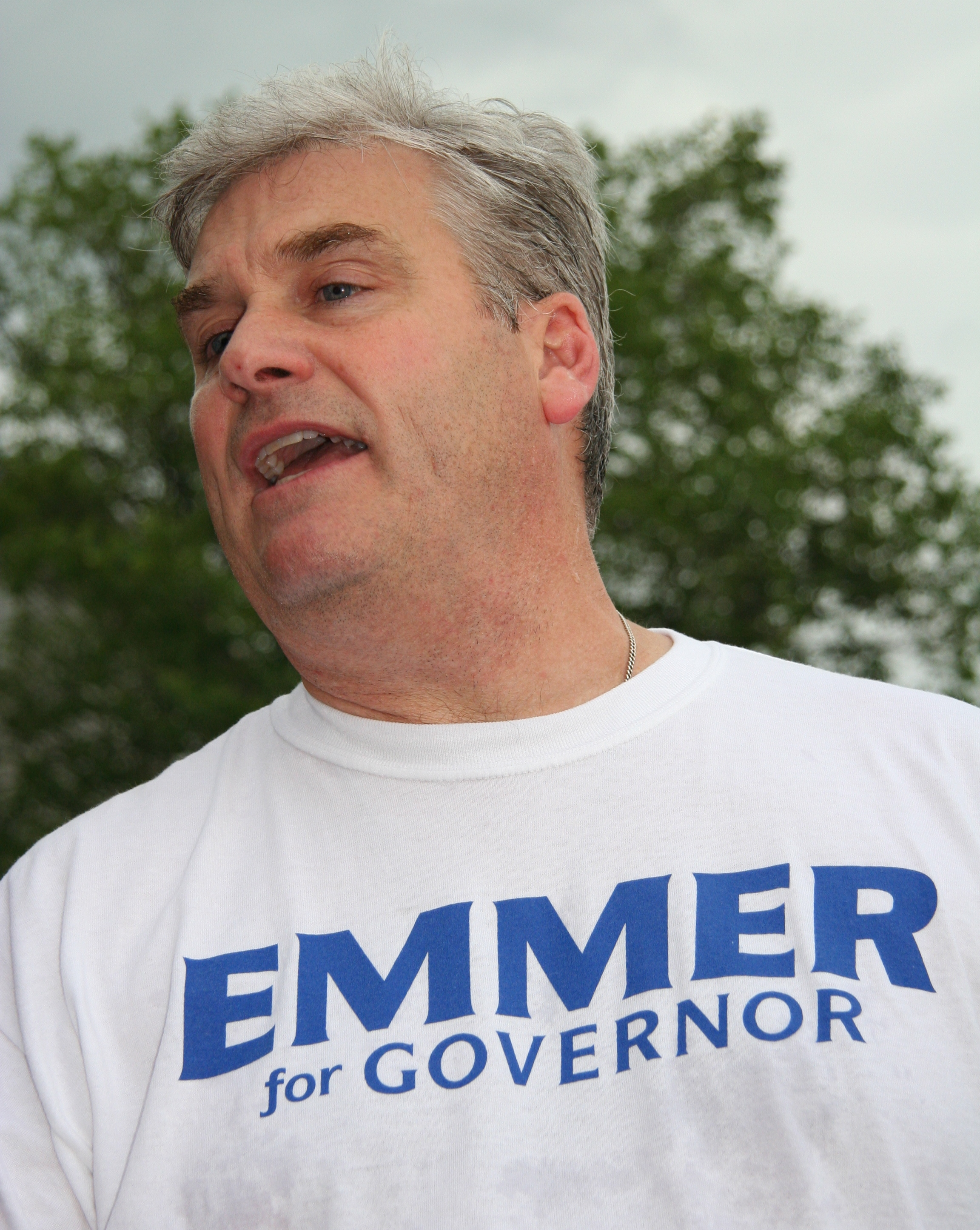 Tom Emmer at a parade in Rochester, Minnesota